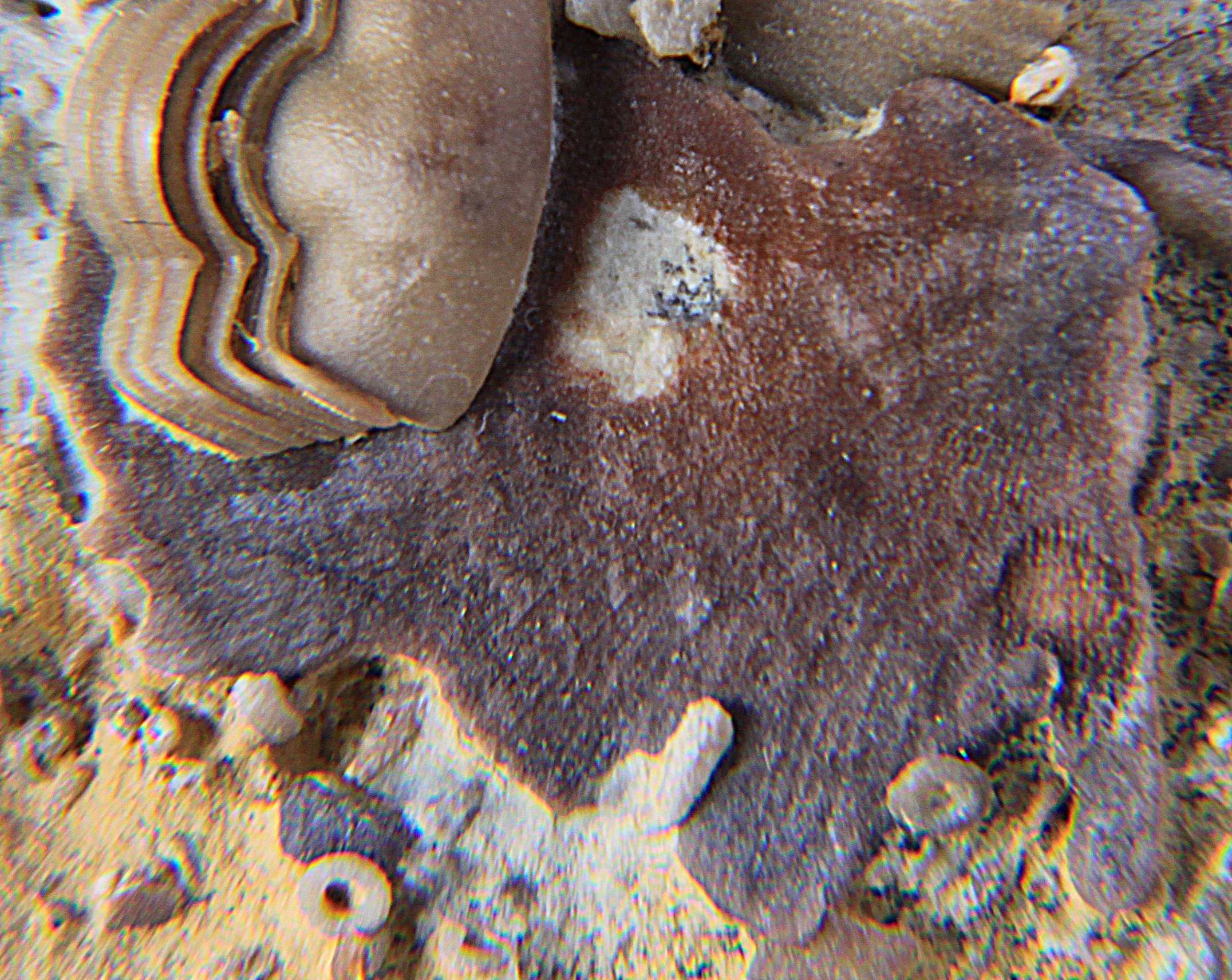 A Ischadites iowensis green alga, Order Dasycladales, Family Dasycladaceae,12mm, collected from the Bromide Formation, Carter County, Oklahoma, USA, from the early Upper Ordovician (Sandbian). Note the Nanillaenus pygidium overlying the alga top left.